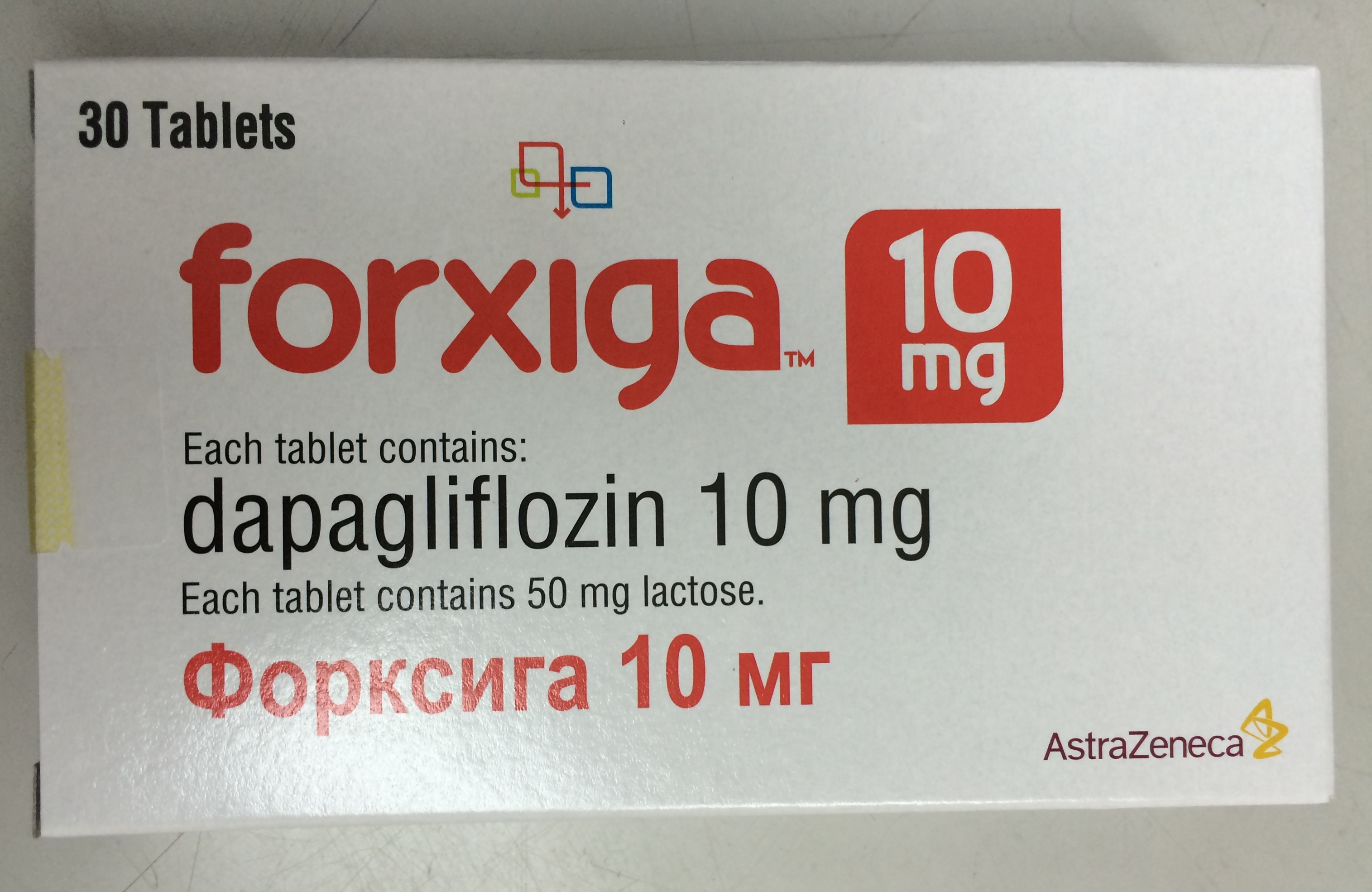 This is a photo of the Box of Forxiga (containing dapagliflozin), a new drug to treat diabetes mellitus type 2, marketed by AstraZeneca in Israel. AstraZeneca logo appears on the package